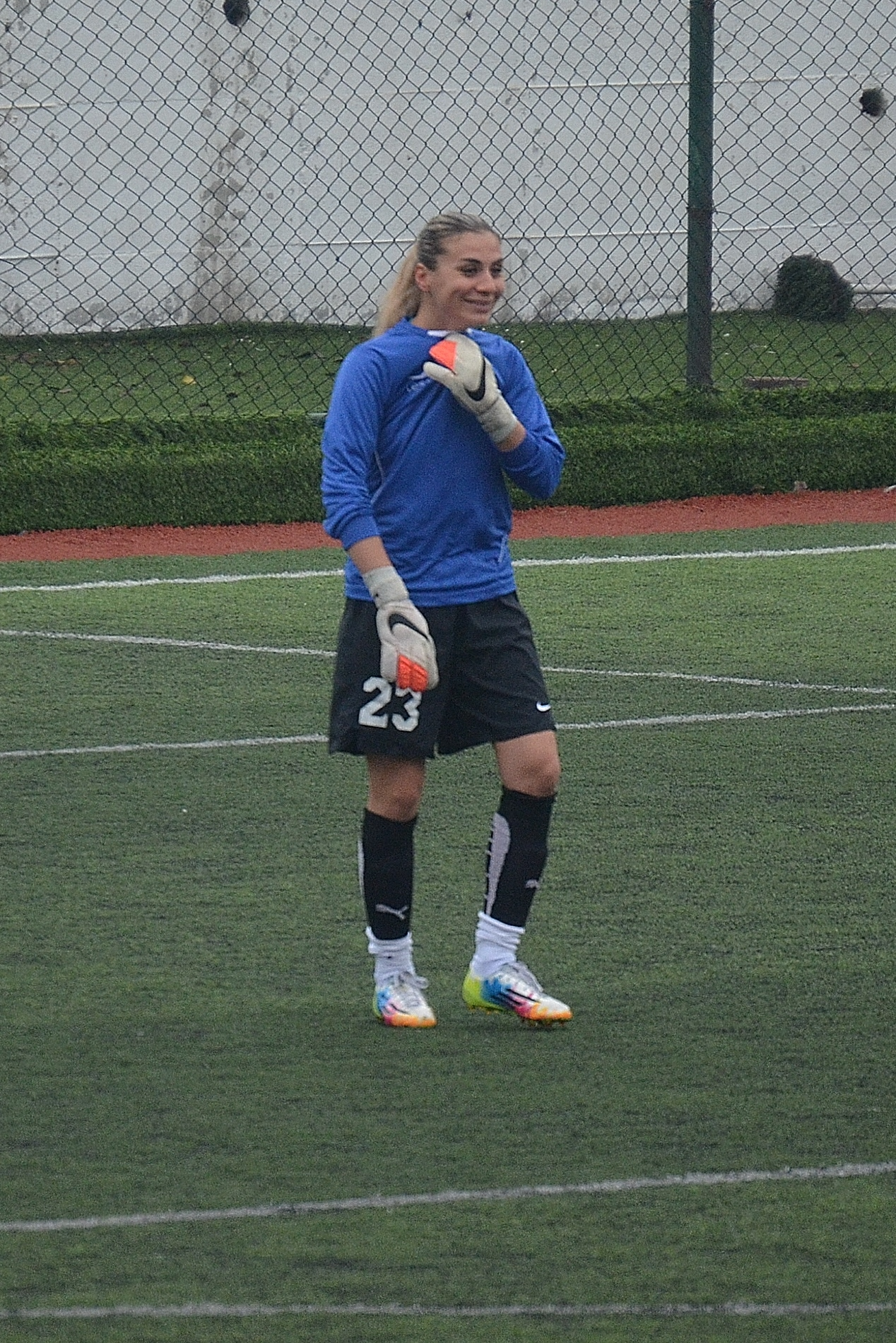 Ezgi Çağlar for Ataşehir Belediyespor in the 2014-15 season